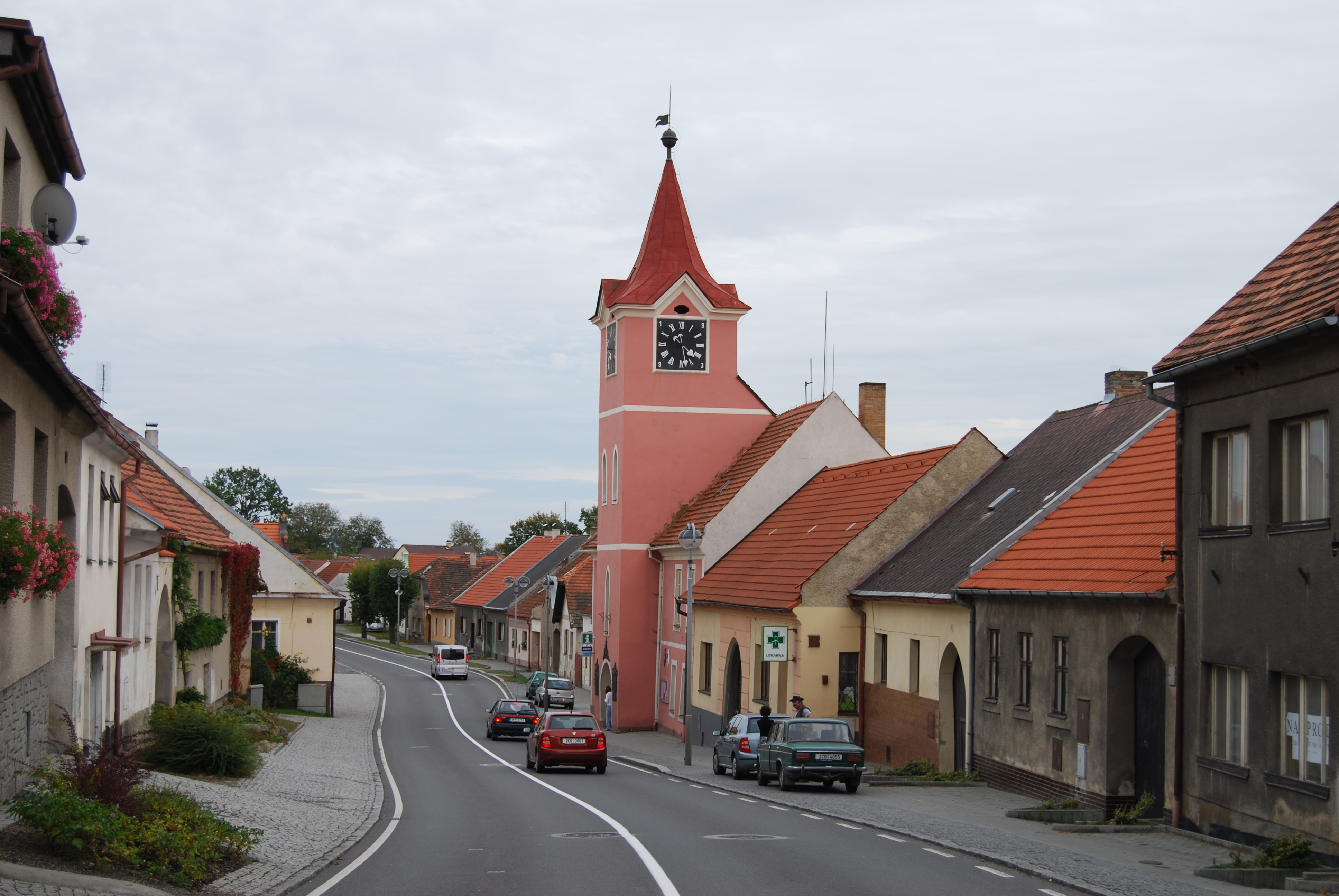 Kasejovice town in Plzeň-jih District. Czech Republic. Town Hall with tourist information